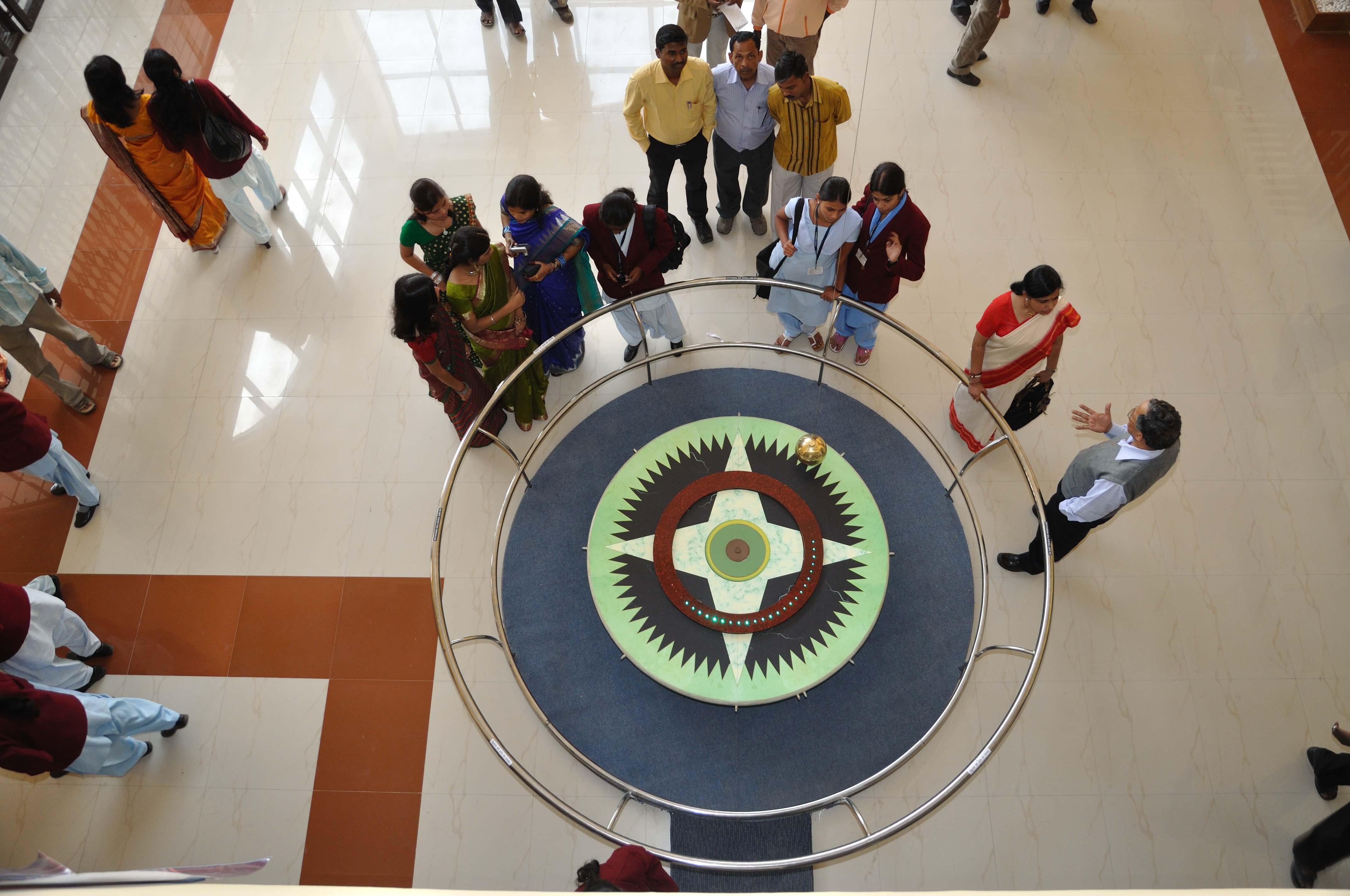 The Foucault pendulum or Foucault's pendulum, named after the French physicist Léon Foucault, is a simple device conceived as an experiment to demonstrate the rotation of the Earth. It is a popular displays in the Ranchi Science Centre.